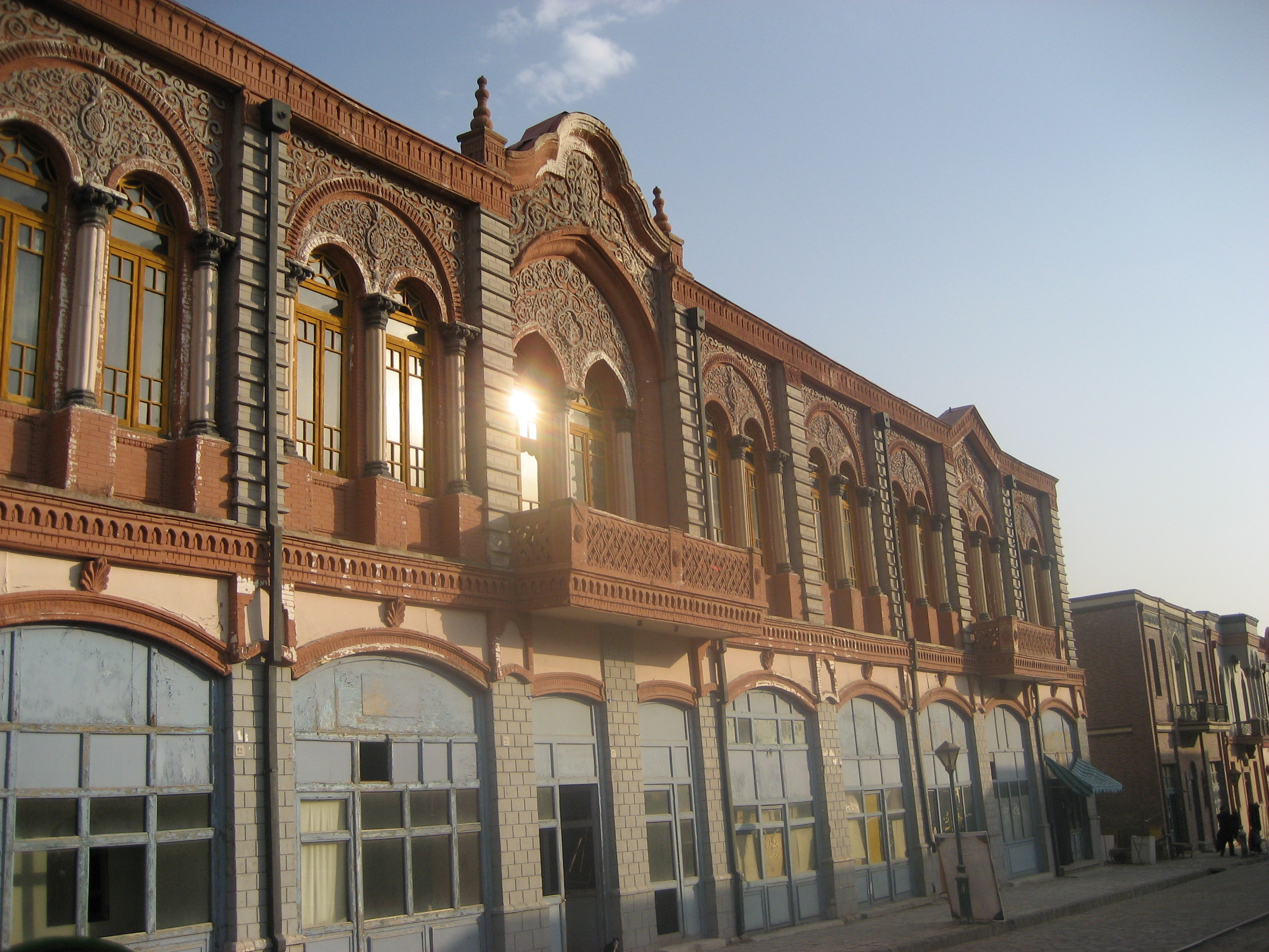 Tehran Ghazali Movie Town